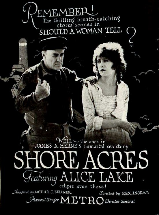 Advertisement for the American drama film Shore Acres (1920) with Alice Lake and Frank Brownlee, on page 3104 of the April 3, 1920 Motion Picture News.